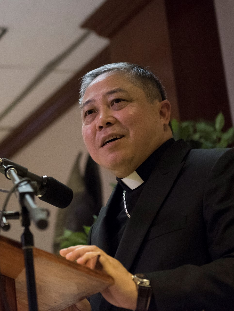 archbishop Bernadito Auza